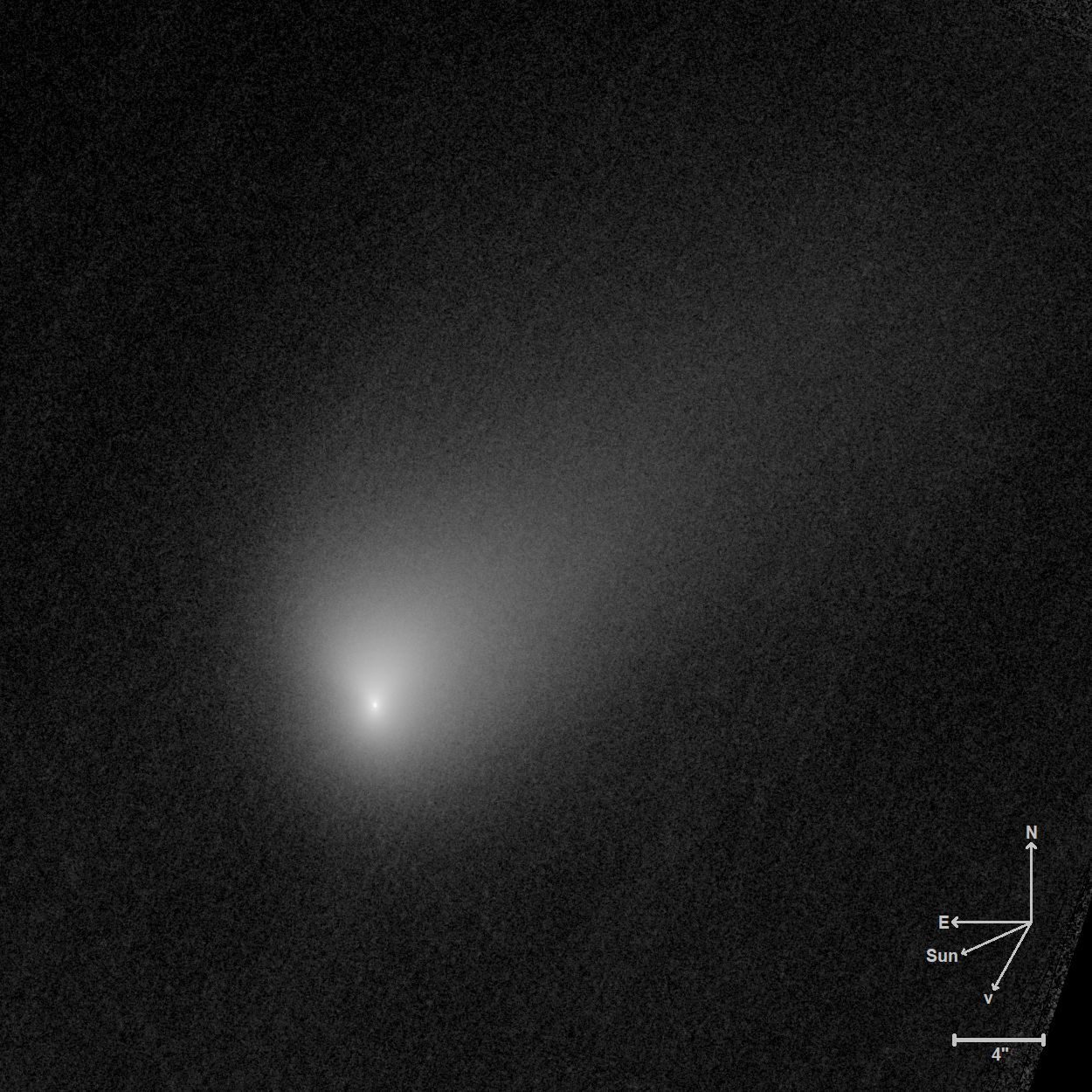 Stack of 24 260-second exposures, taken with the F350LP filter for Hubble's Wide Field Camera 3. Principle Investigator: D. Jewitt (Hubble Proposal #16009). Processing: D. Bamberger.